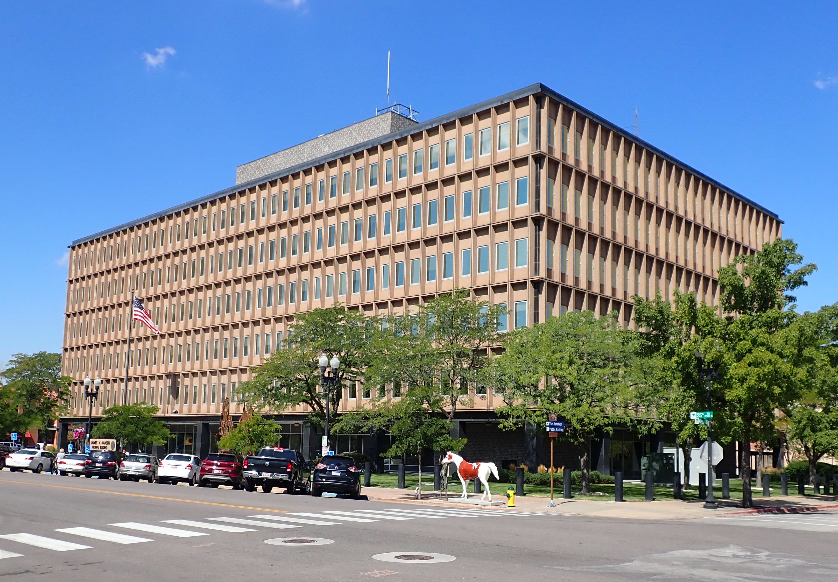 The James V. Hansen Federal Building, in Ogden, Utah, United States.